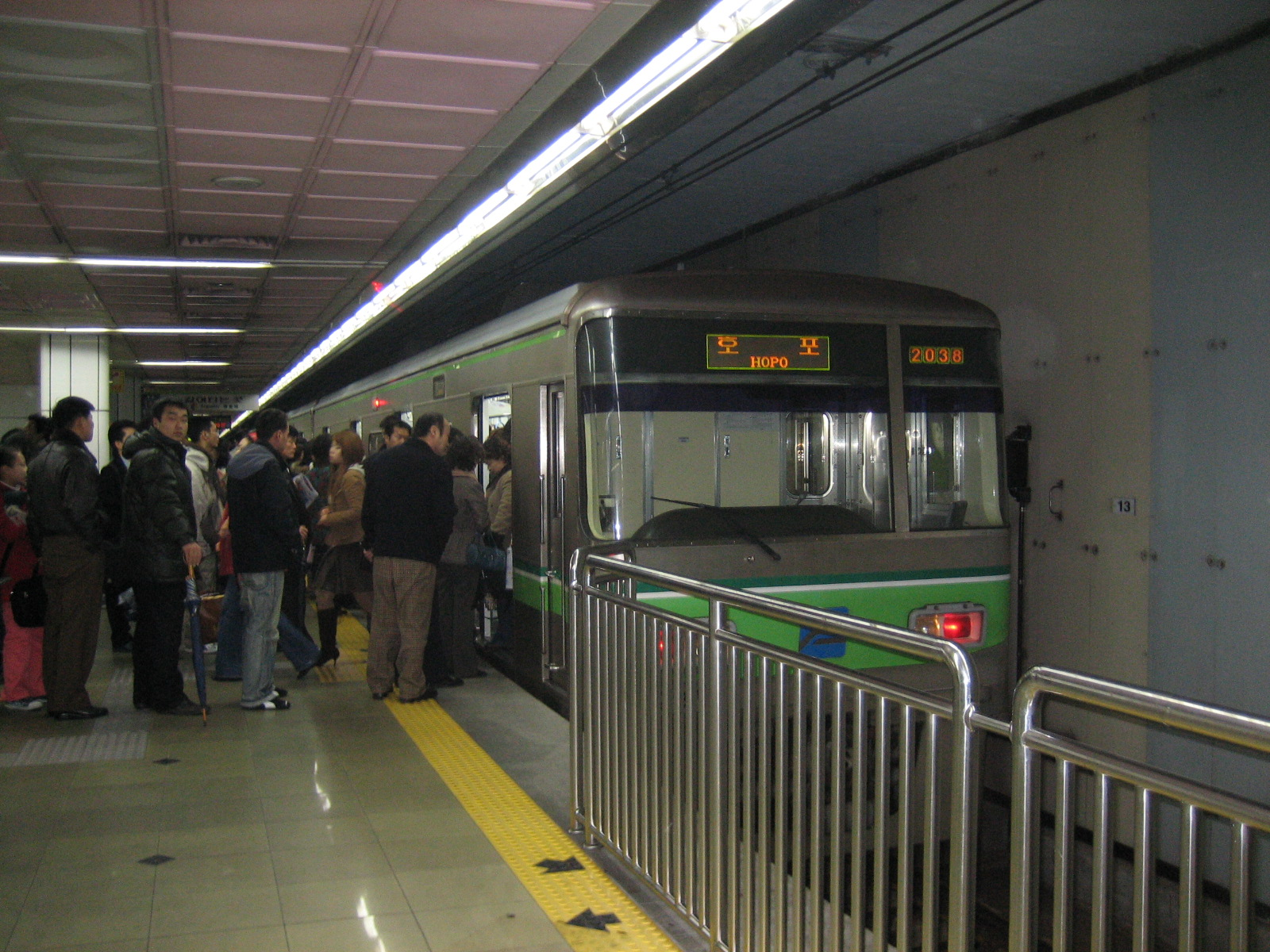 Busan Subway Line 2